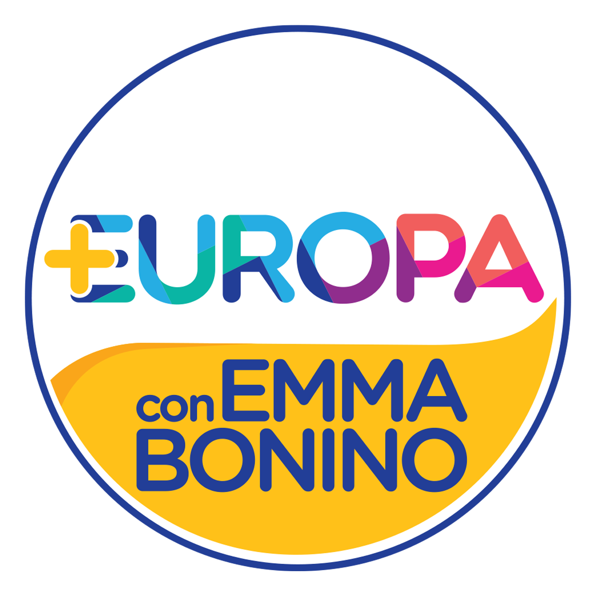 Più Europa con Emma Bonino logo.